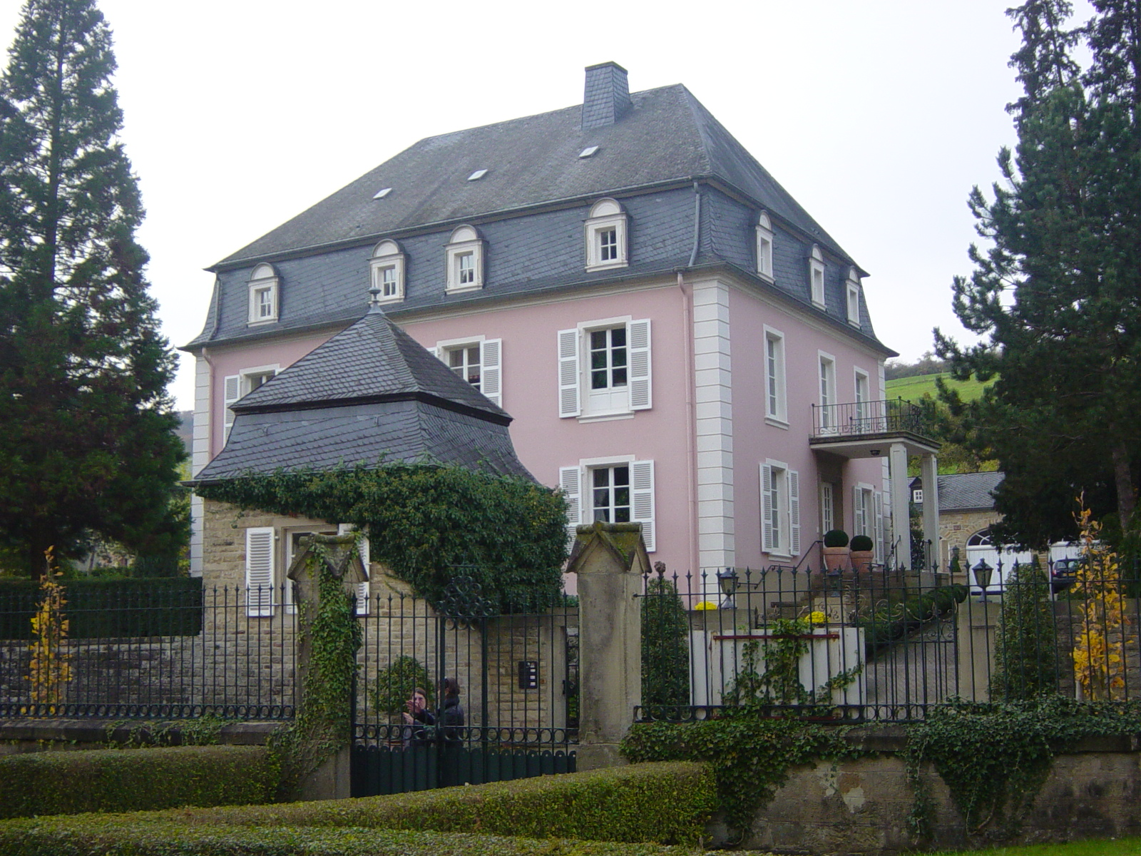 Photograph of the Chateau de Born (Mompach), Luxembourg